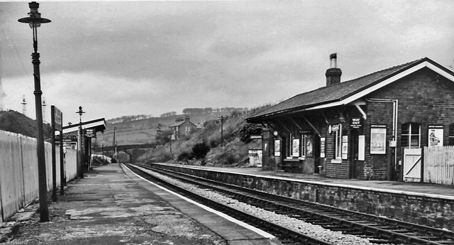 Bollington Station. View northward, towards Manchester; ex-GC&NS Joint (Manchester London Road) - Romiley - Rose Hill (Marple) - Macclesfield Central line. Station and line (from Rose Hill) closed 5/1/70.